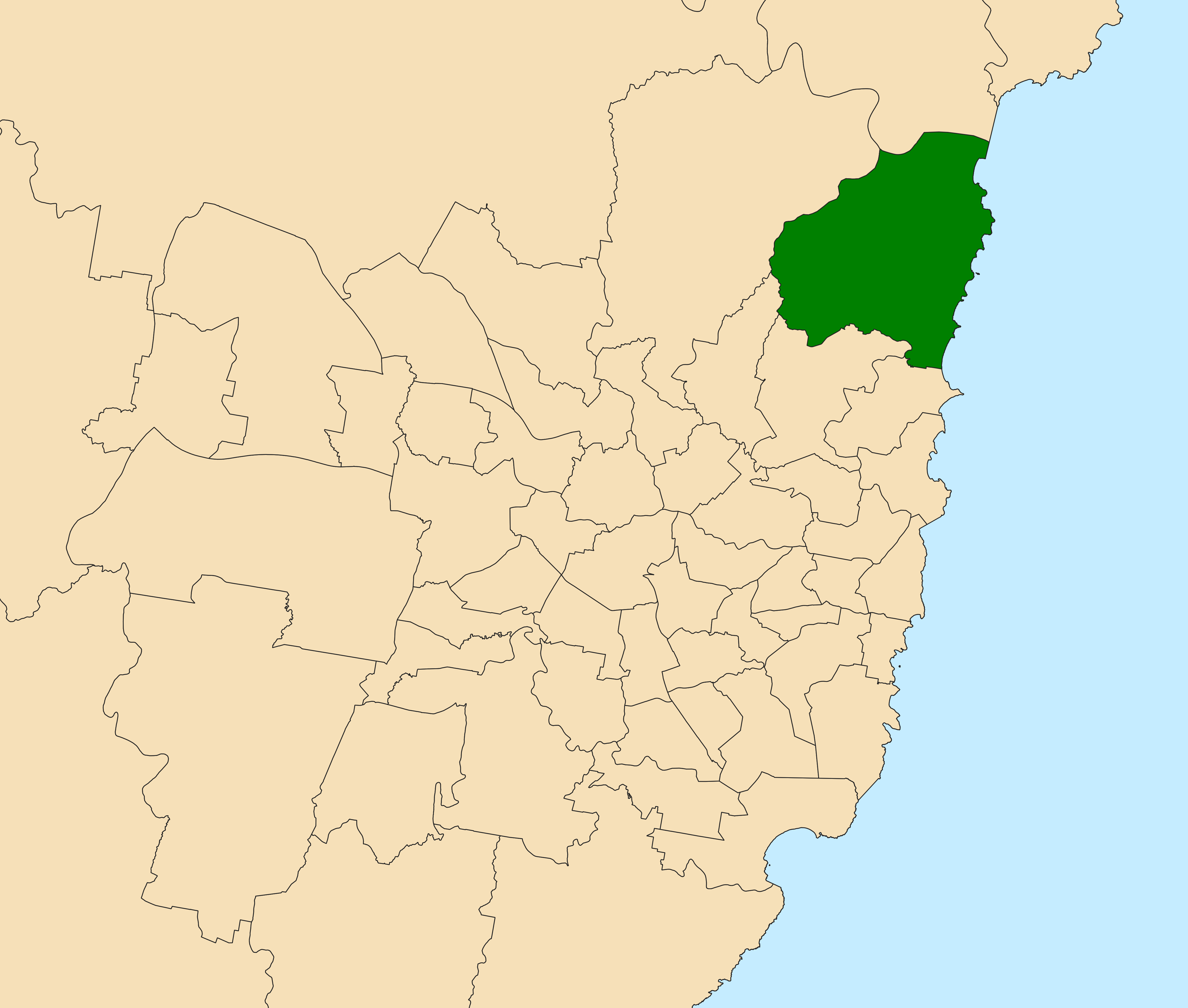 Location of the state electoral district of Pittwater (dark green) in the metropolitan Sydney area as of the 2019 New South Wales state election. Incorporates or developed using Administrative Boundaries ©PSMA Australia Limited licensed by the Commonwealth of Australia under Creative Commons Attribution 4.0 International licence (CC BY 4.0).